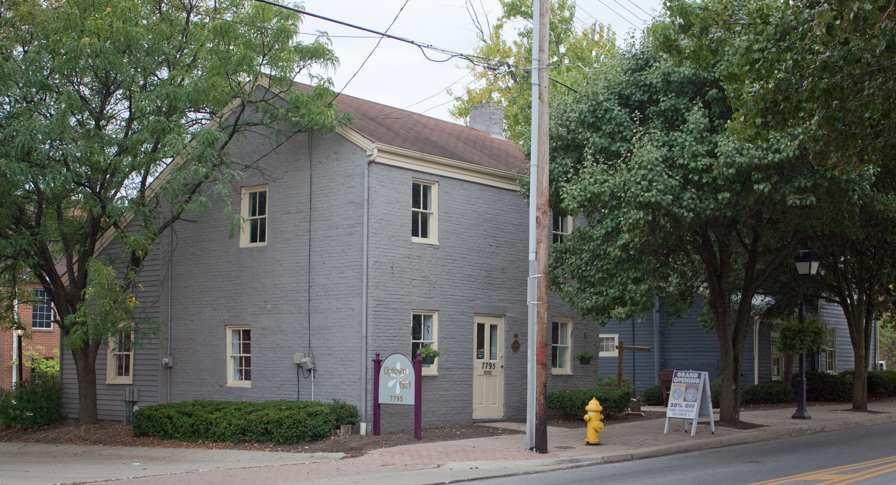 Salt Box Houses in Montgomery, Ohio Photo by Greg Hume.